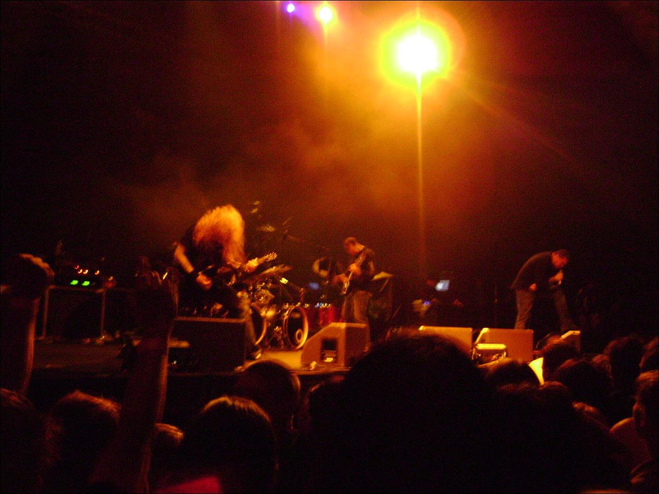 Chimaira live in Auckland, NZ, on April 24, 2008.